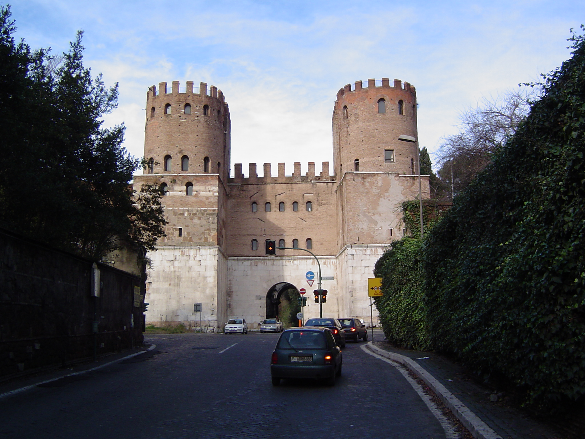 Porta San Sebastiano, Rome, Italy. Made by Joris van Rooden, the Netherlands on 03-01-2006